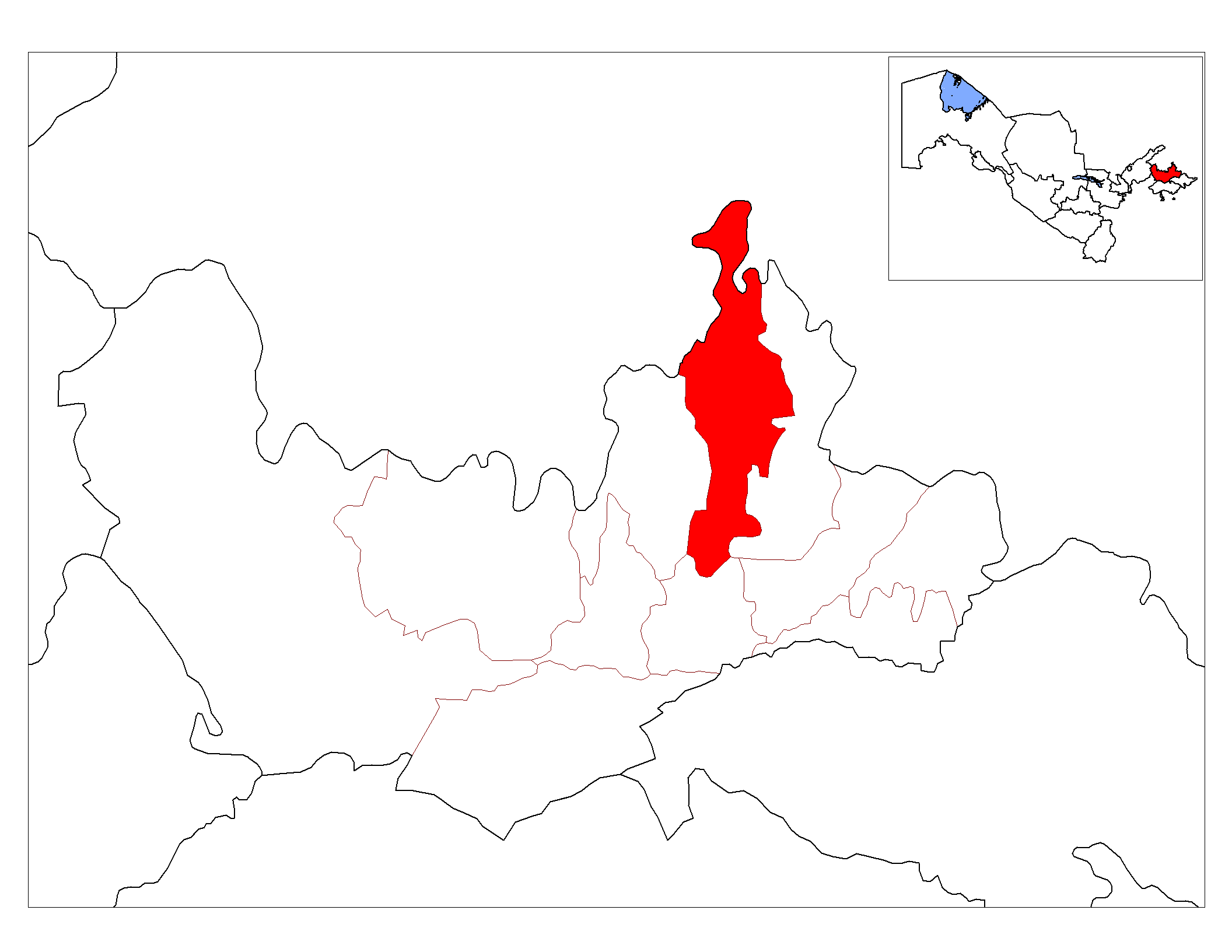 Location map of Yangiqo’rg’on District in Namangan Province